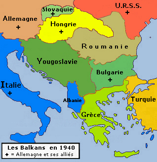 Historic map of the Balkan peninsula, 1940